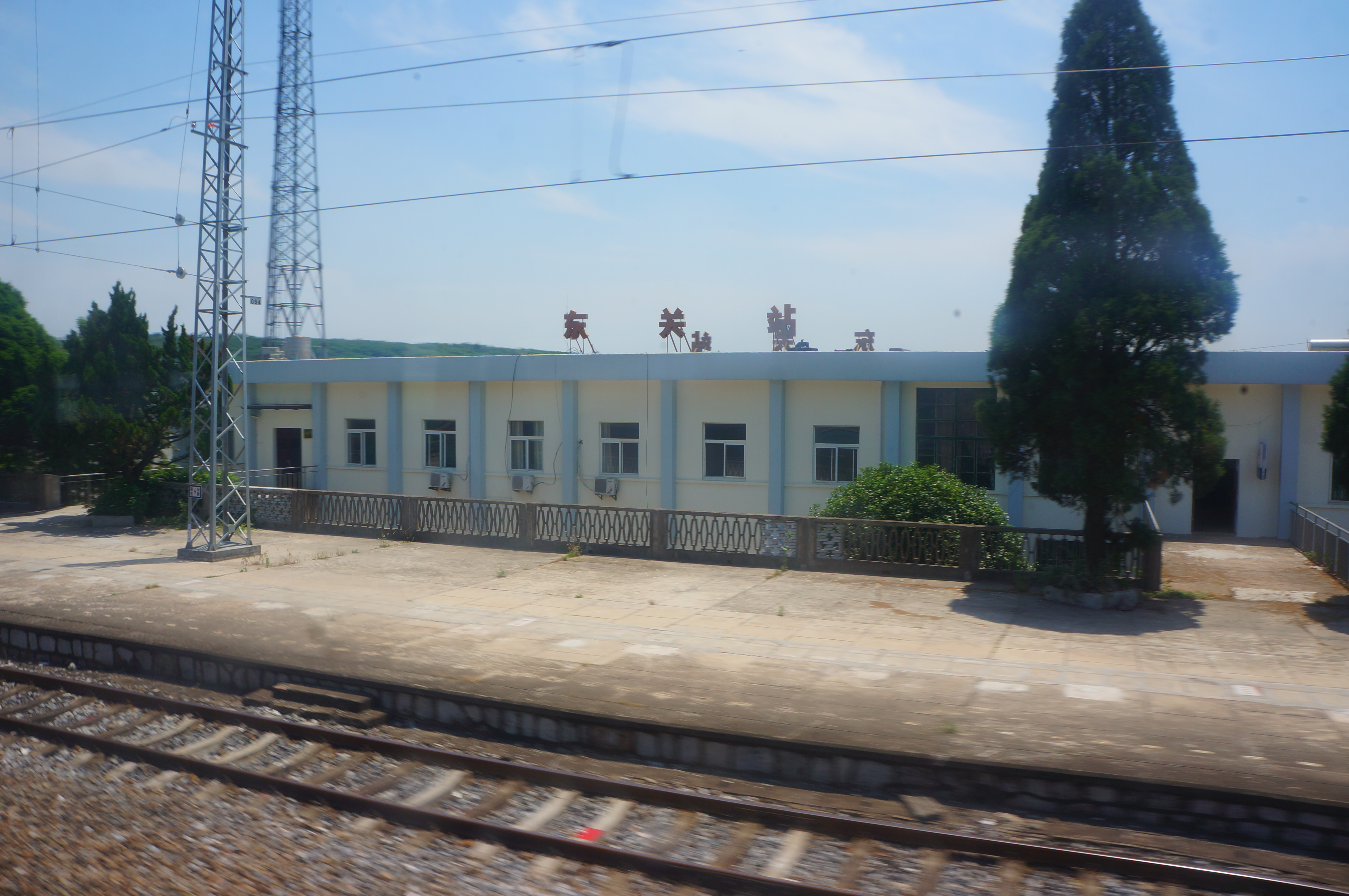 201705 Station building of Dongguan Station...Why do I met a Dongguan Station here?